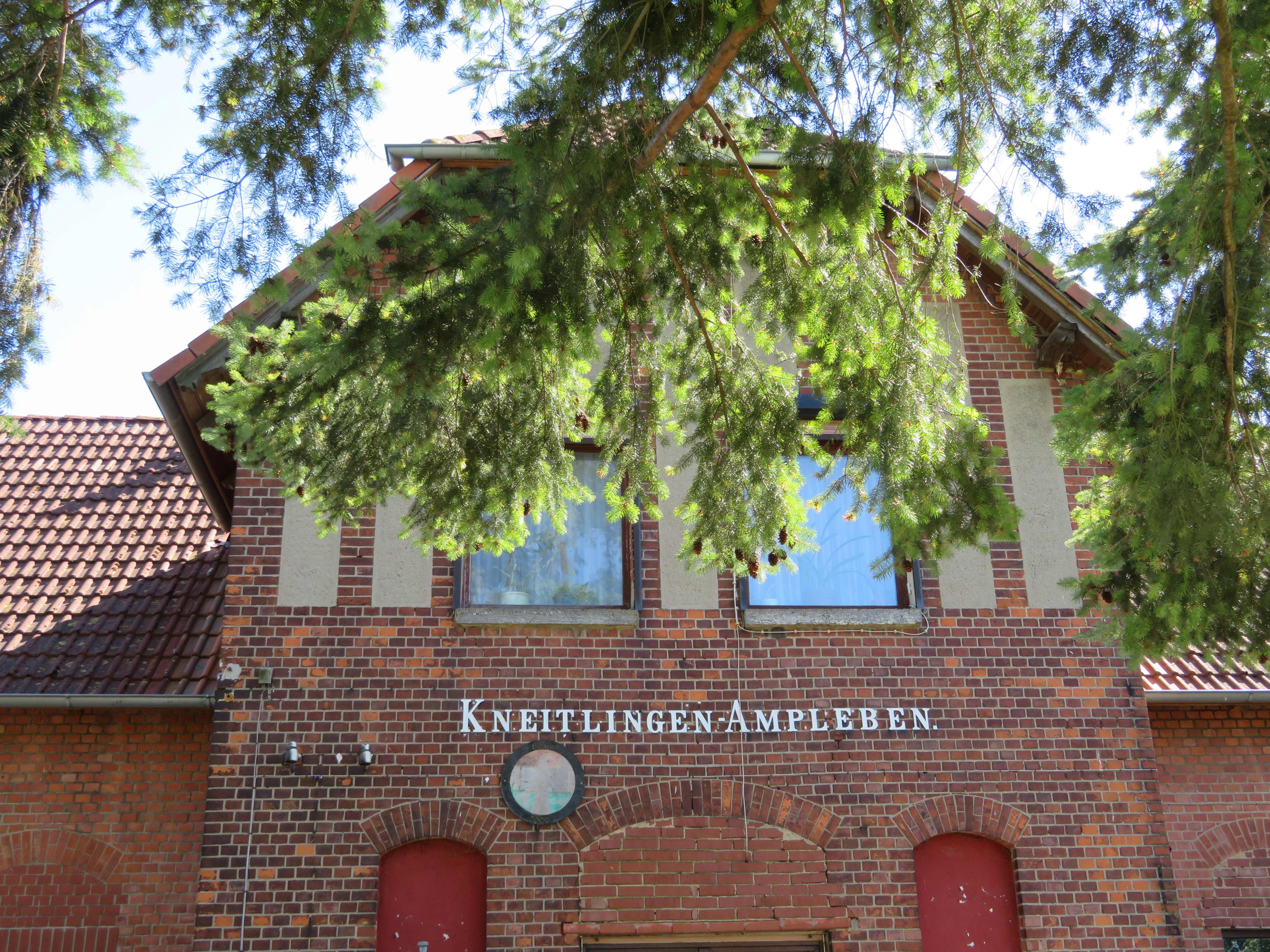 Former railway station, Kneitlingen, Lower Saxony, Germany